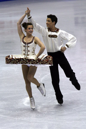 2008 Four Continents Figure Skating Championships - Tessa Virtue and Scott Moir